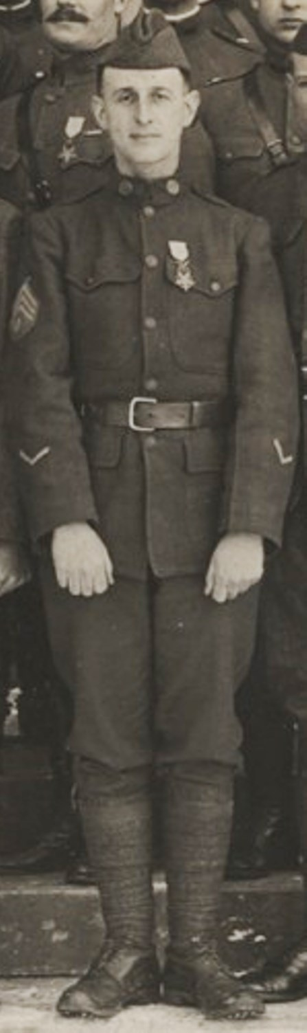 WWI Medal of Honor recipient First Sergeant Sydney G. Gumpertz. Note, too, the single wound chevron on his lower right sleeve.